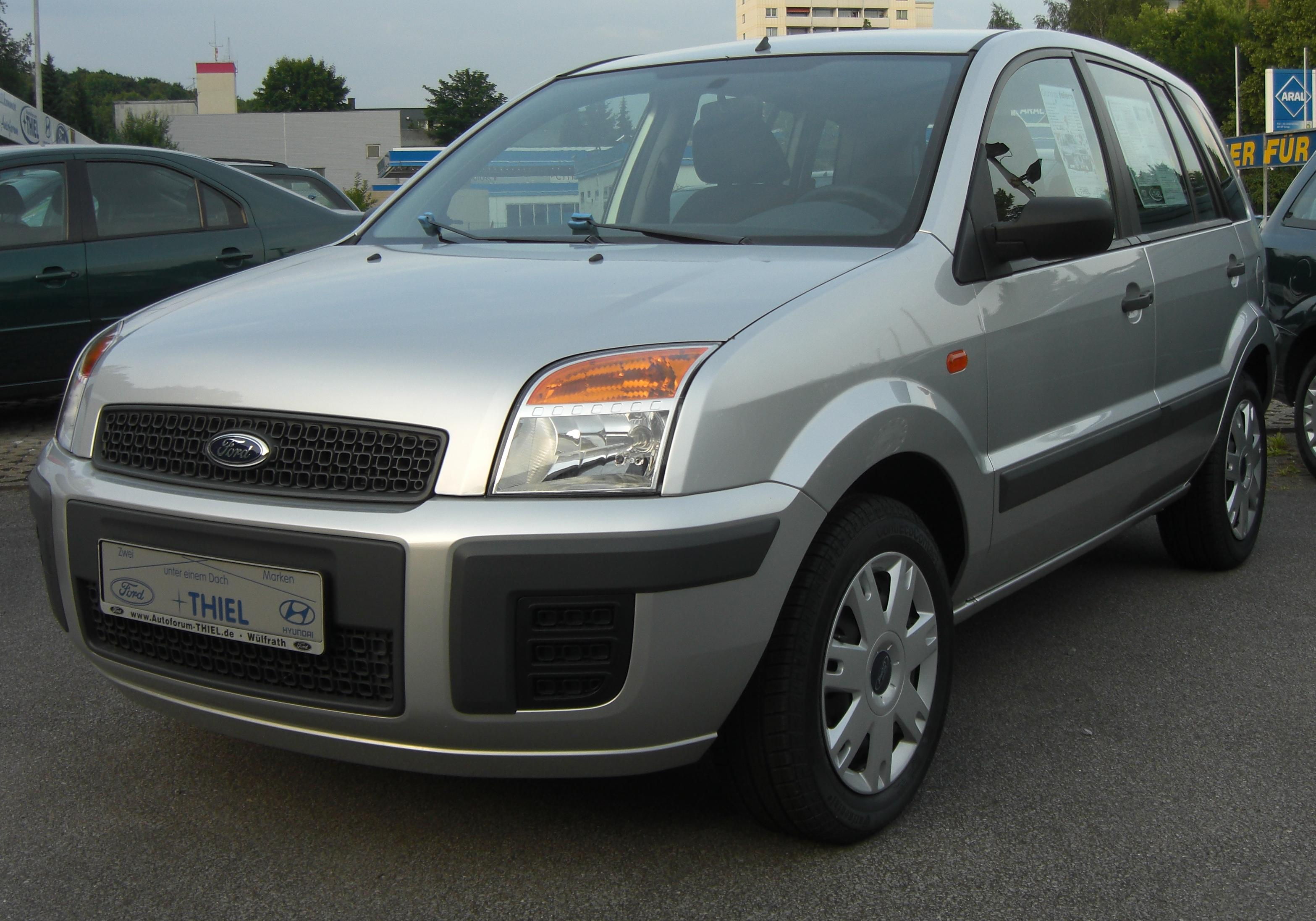 Ford Fusion (Europe)